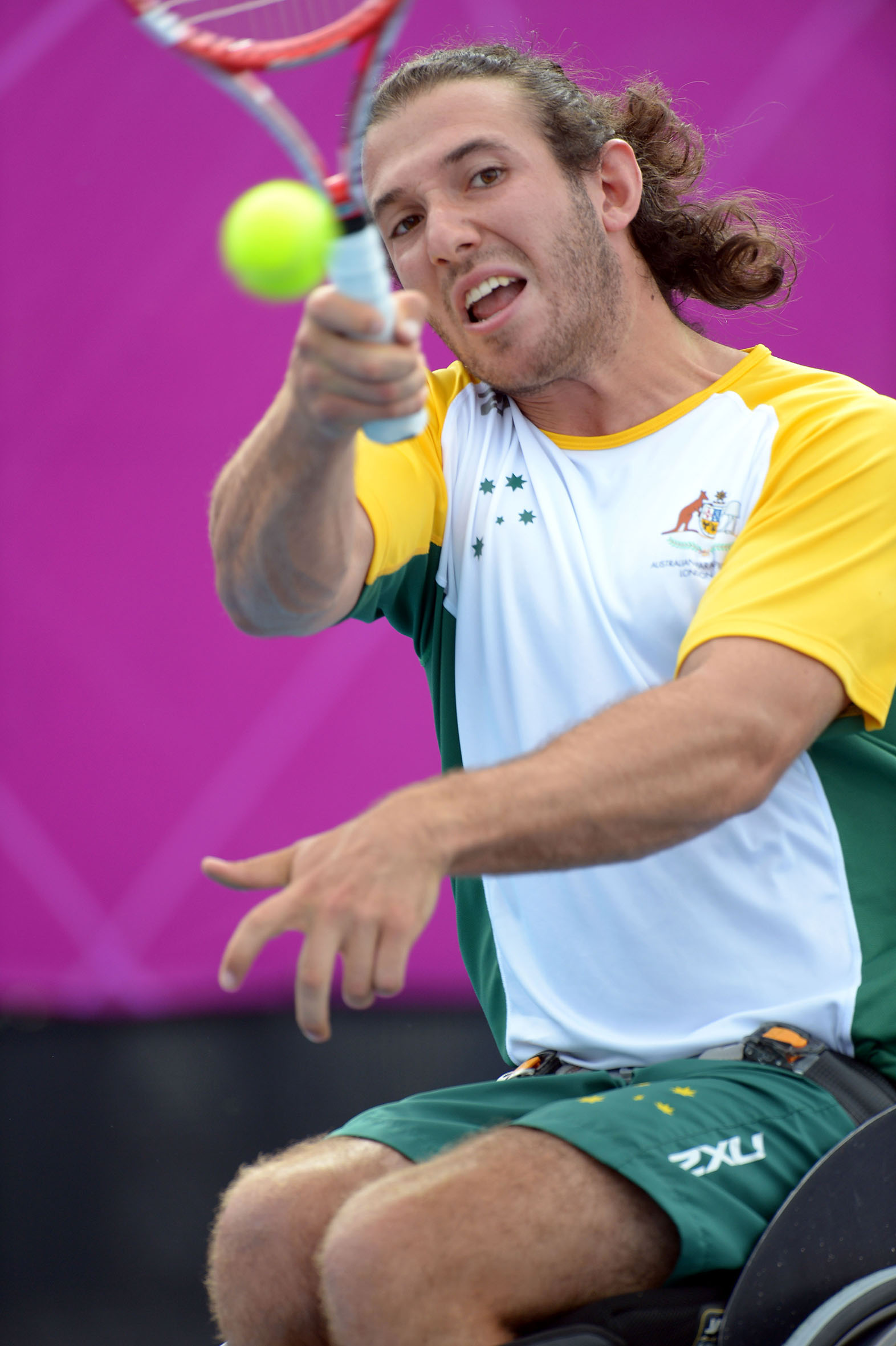 Photograph of Australian Paralympic team member Adam Kellerman at the 2012 Summer Paralympic Games in London